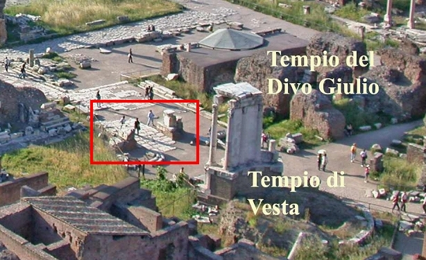 Forum Romanum with highlighted rests of Arch of Augustus